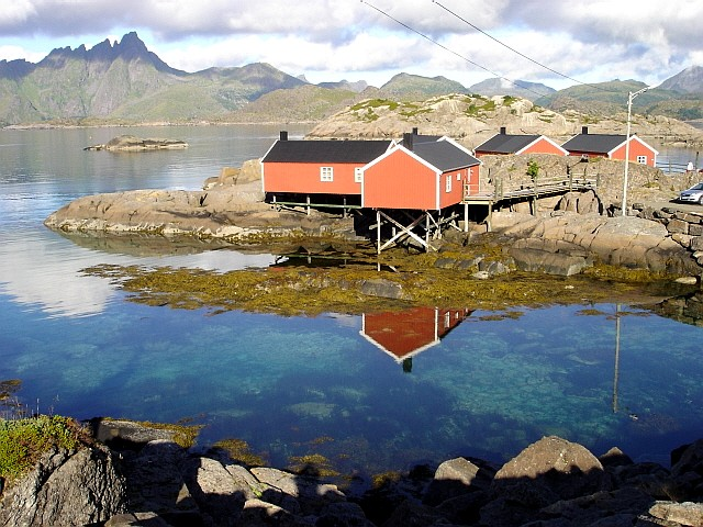 Rorbu, Mortsund, Lofoten, Vestvågøy, Wooden buildings in Norway